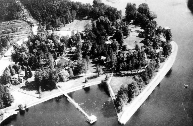 Huusniemi Park in Vyborg, Finland (modern day Russia).